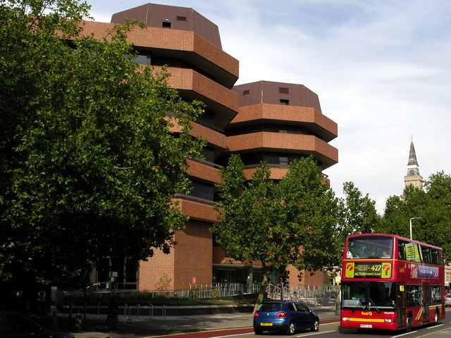 Perceval House, Uxbridge Road, Ealing, W5 Ealing Council's offices on the busy Uxbridge Road. Behind the bus the tower of the Town Hall can be seen.